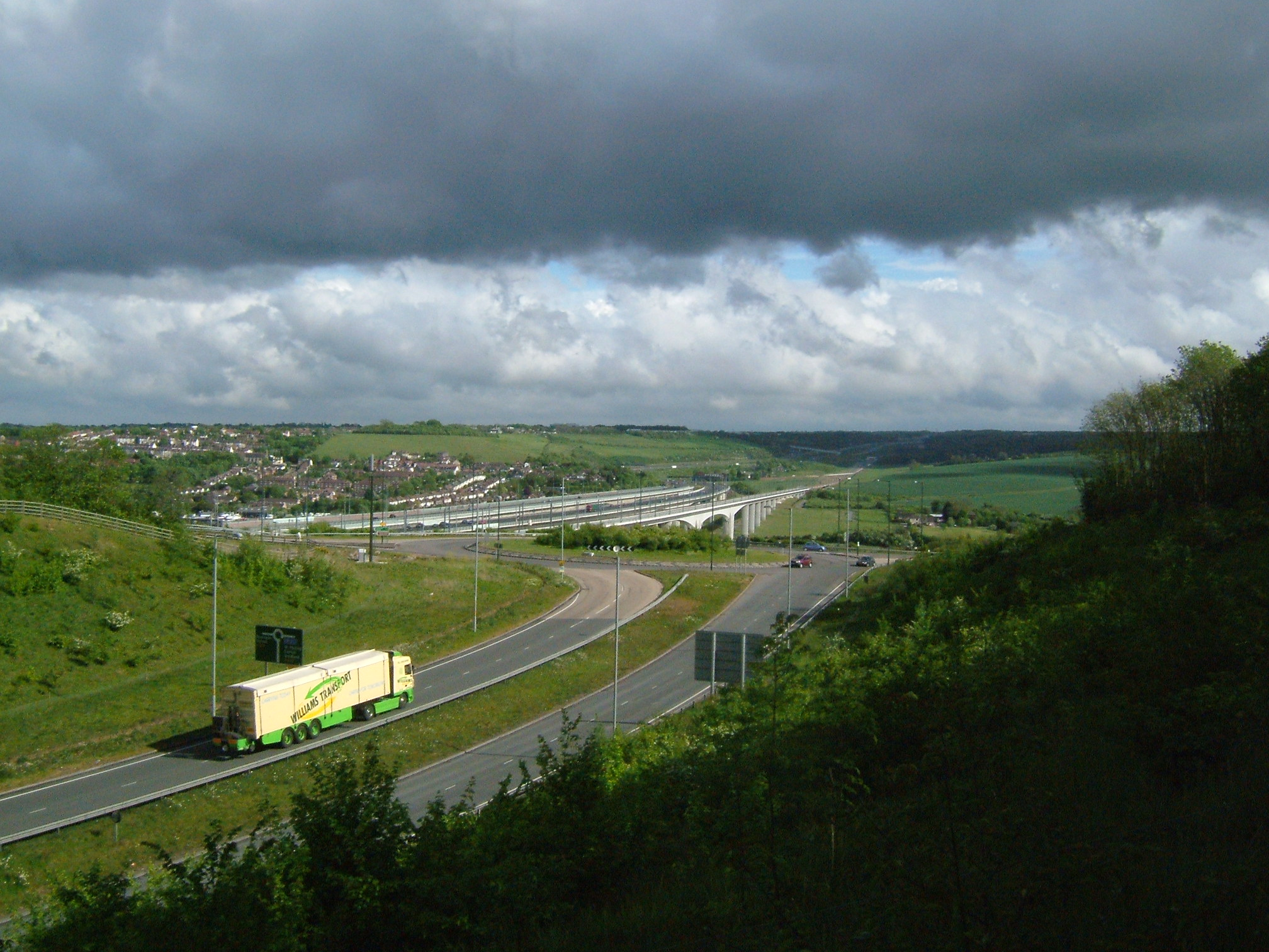 The M2 junction 2 entry roundabout on the A228 and the M2 Motorway Bridge and the Channel Tunnel Rail Link Bridge crossing the River Medway, viewed from Merrall's Shaw, Ranscombe Farm, Cuxton. On the far bank we see Borstal, Fort Borstal and the motorway snaking up the Nashenden Valley while the rail link proceeds in a more direct line.